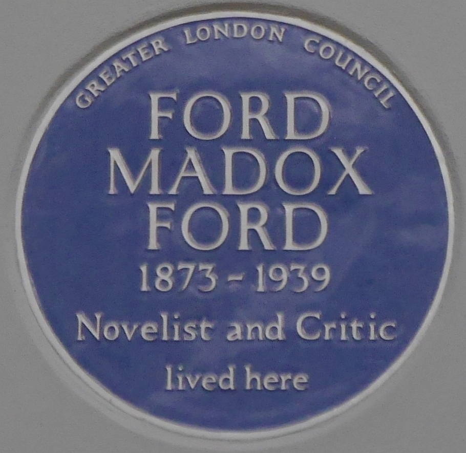 Ford Madox Ford 80 Campden Hill Road blue plaque